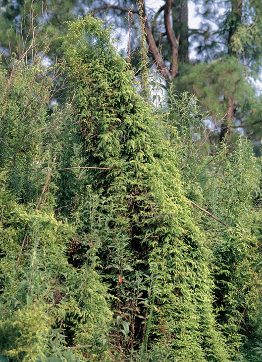 Lygodium japonicum